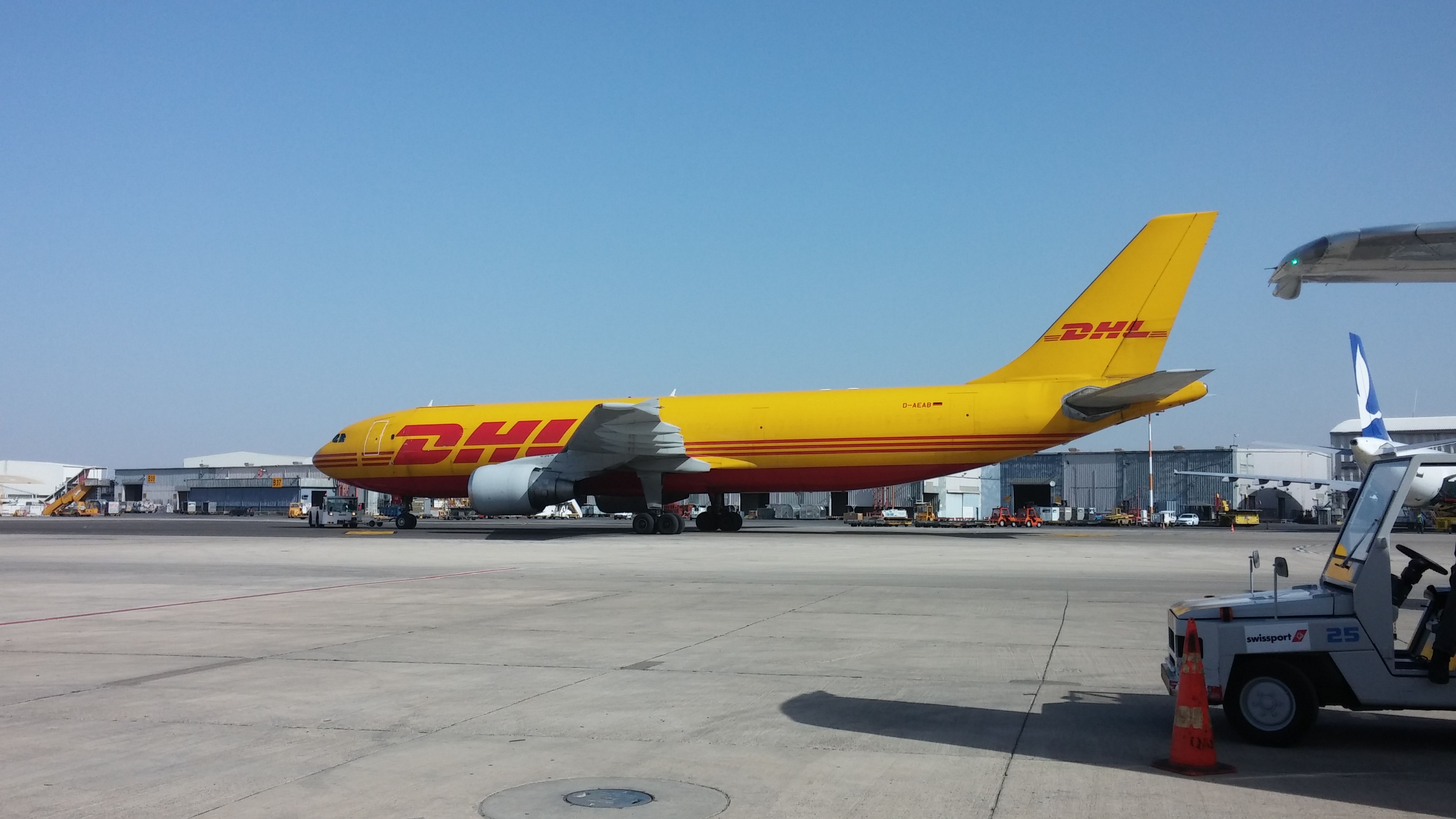 DHL Airbus A300B4-622R(F)